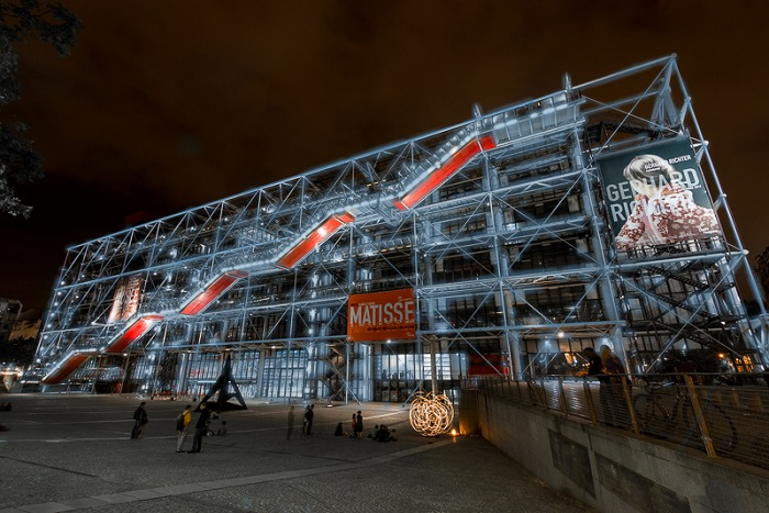 Custom Made at the Centre Pompidou